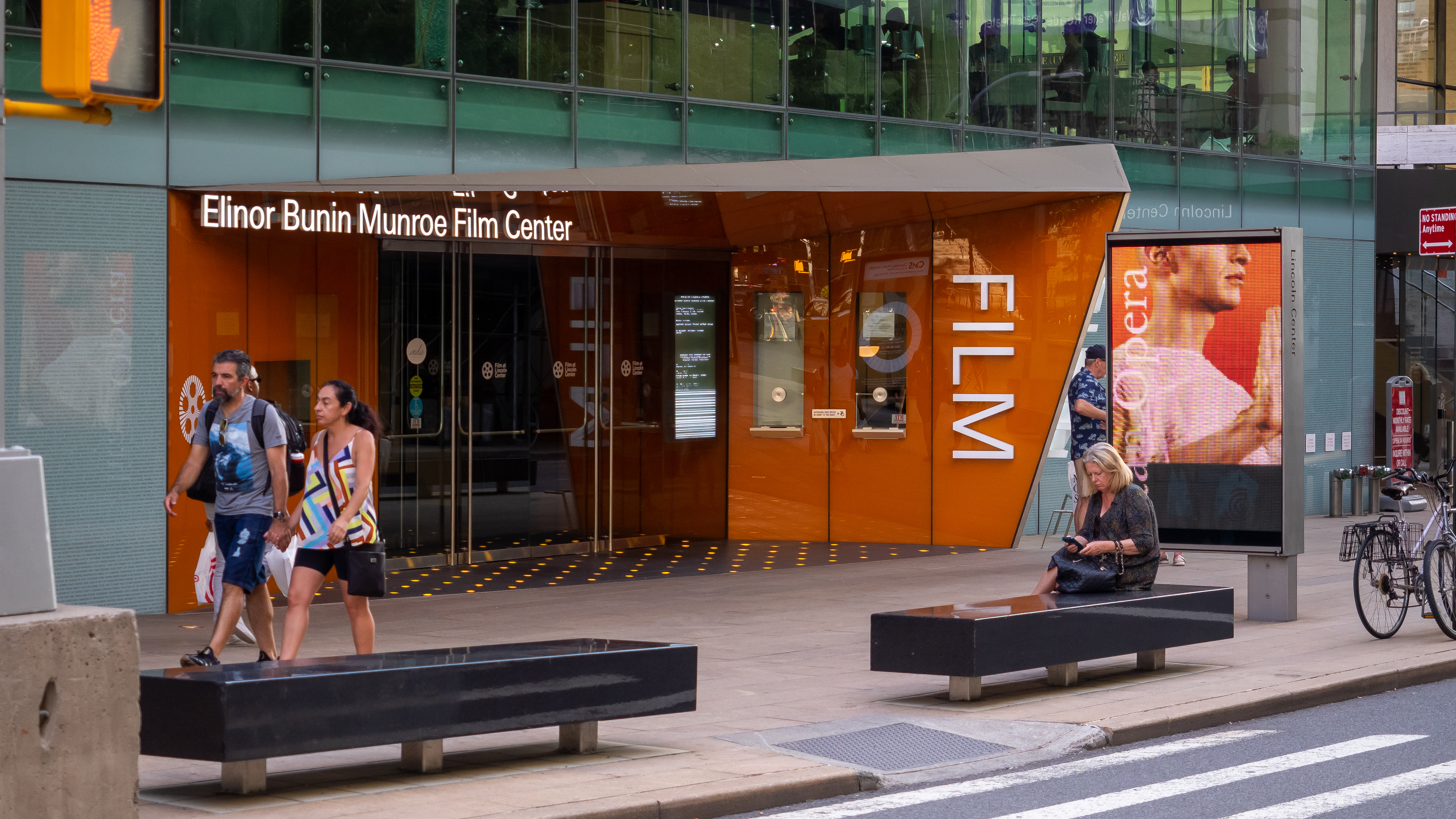 Upper West Side, Manhattan, New York City